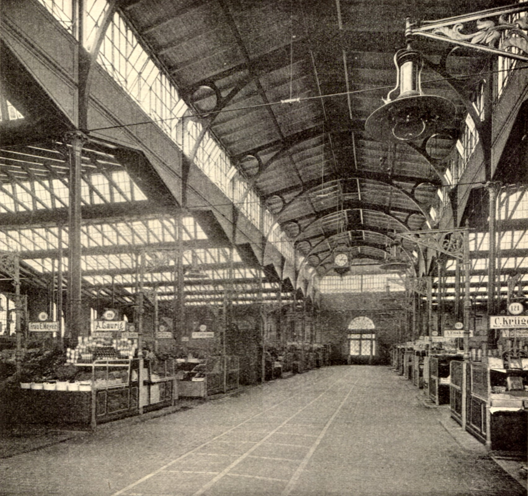 Berlin - market hall X (1896)